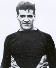 Joe Guyon in football uniform